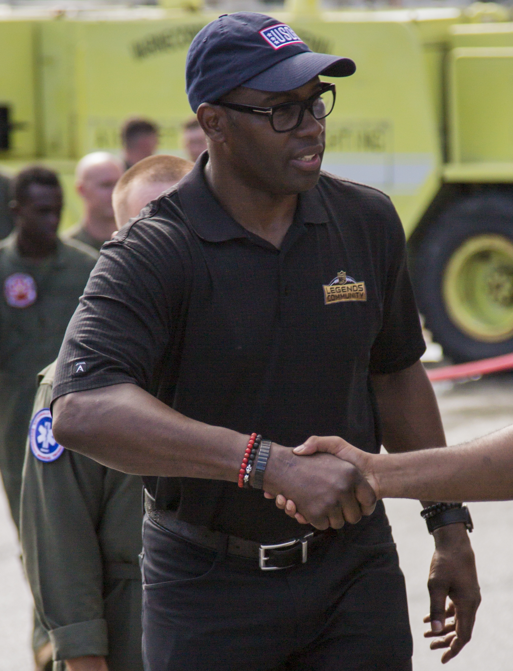 MARINE CORPS AIR STATION FUTENMA, OKINAWA, Japan- Tony Richardson, left, and Lance Cpl. Malcom White Jr. shake hands on the flightline July 25 during the NFL’s Salute to Service initiative at Marine Corps Air Station Futenma, Okinawa, Japan. Richardson and other NFL Legends Donnie Edwards, Amani Toomer visited with Marines for two hours to sign gear and share stories. White is an aircraft intermediate level structures mechanic with Marine Aviation Logistics Squadron 36, Marine Aircraft Group 36, 1st Marine Air Wing. (U.S. Marine Corps photo by Lance Cpl. Brennan Priest)